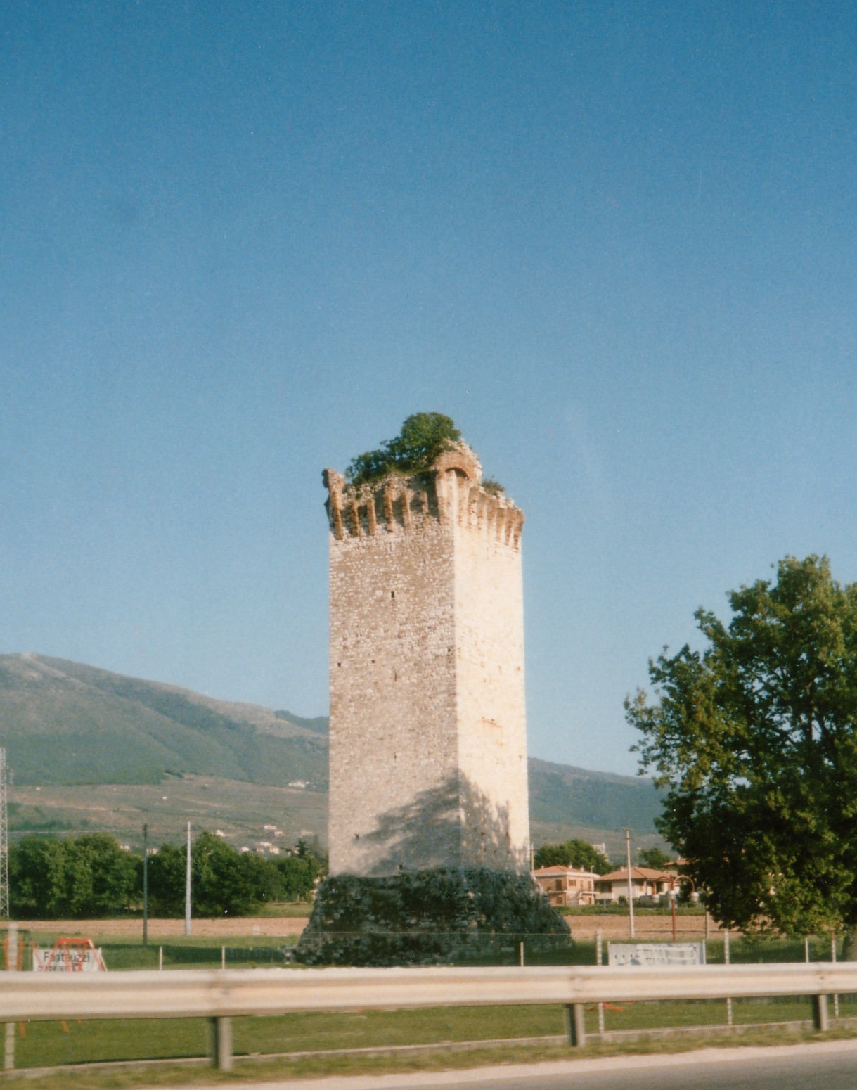 Tower of Matigge, Matigge, Trevi, Perugia, Umbria, Italy